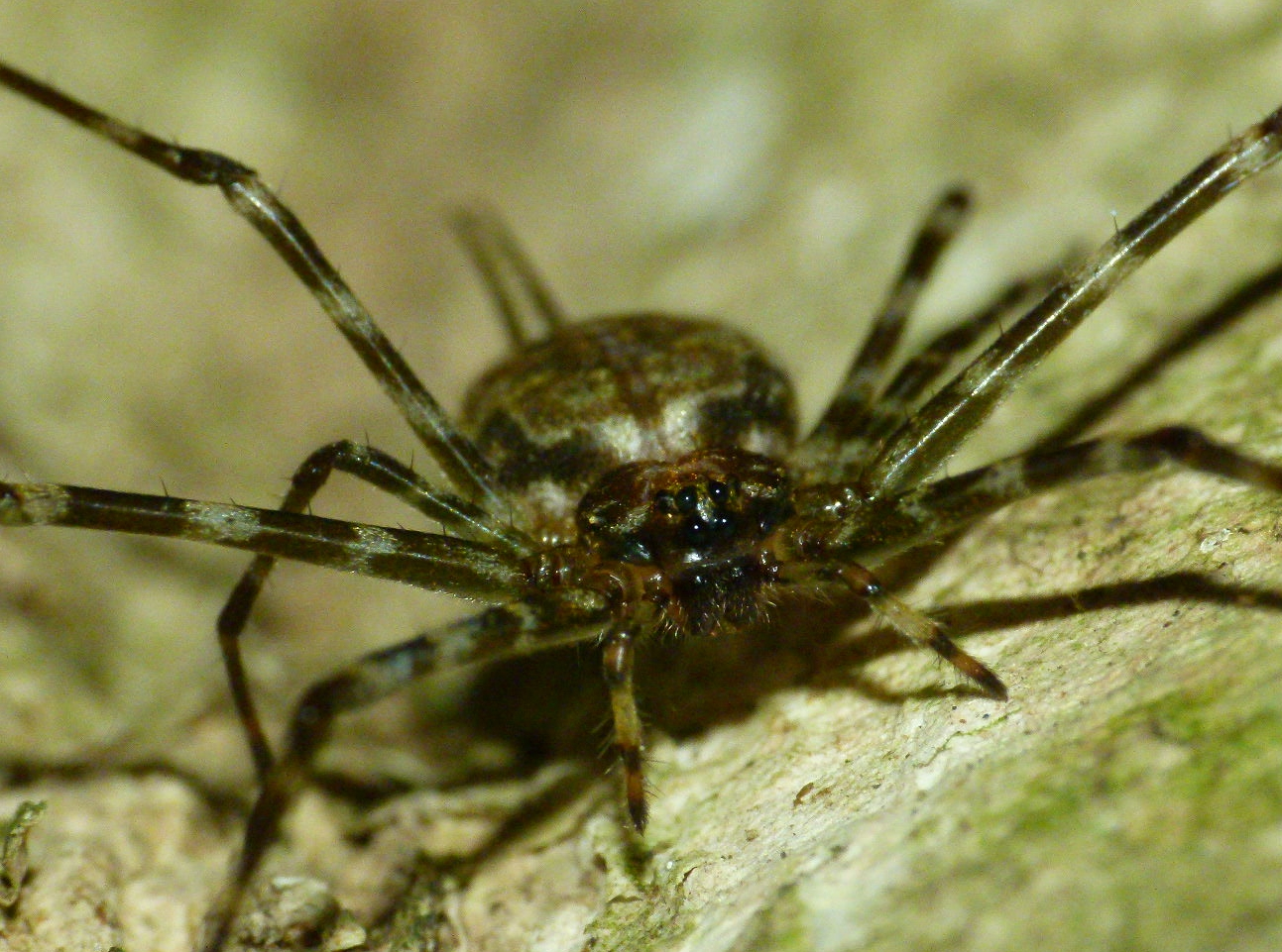 Hersilia spider from the front. Wynaad, India